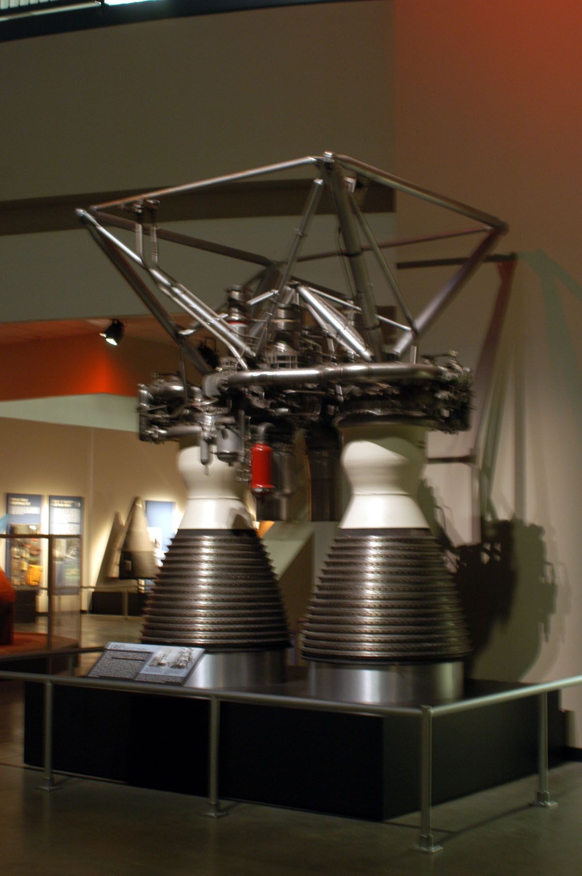 DAYTON, Ohio -- Aerojet-General LR87 engine at the National Museum of the United States Air Force. (U.S. Air Force photo)